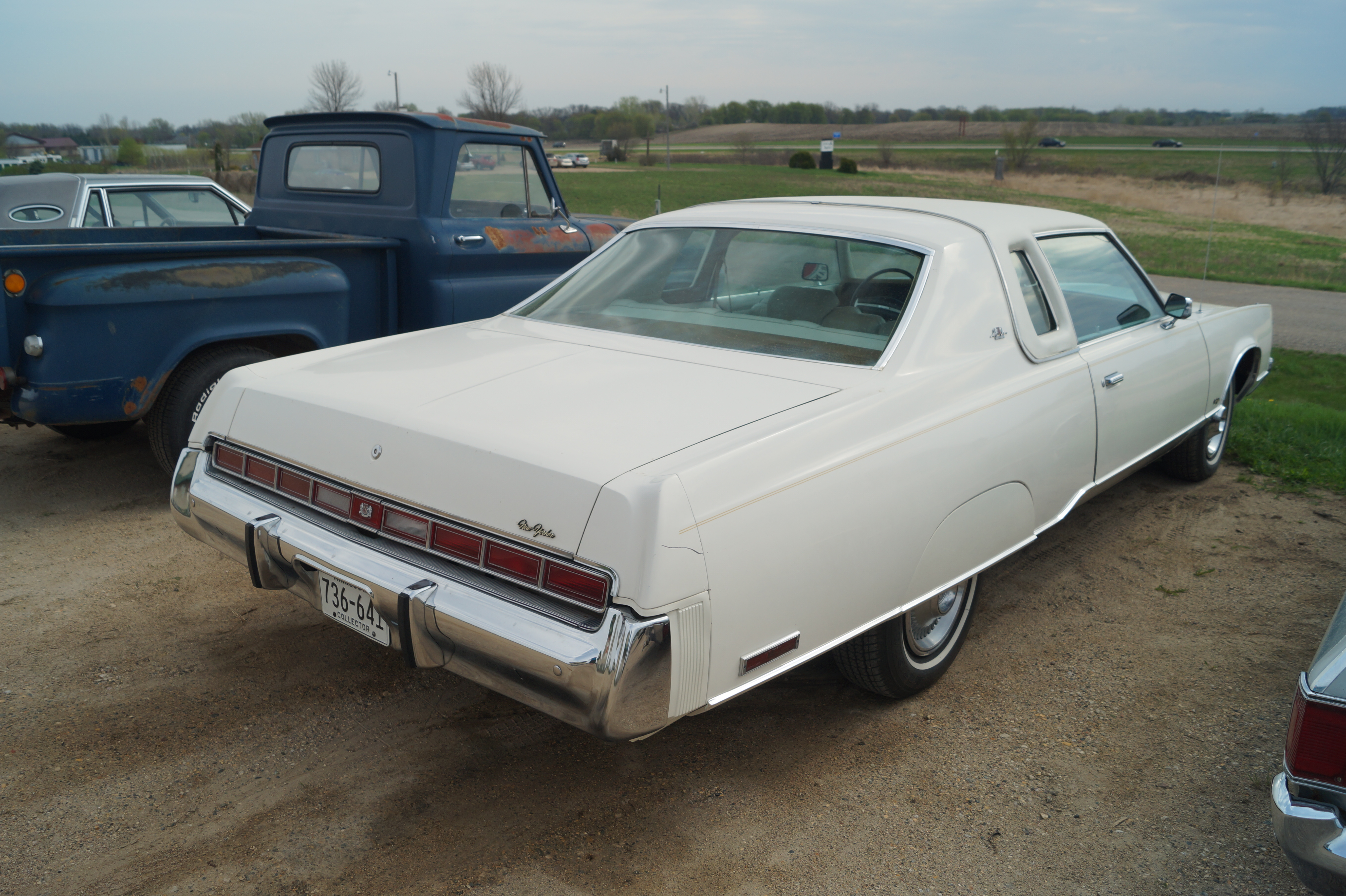 Click here for more car pictures at my Flickr site.